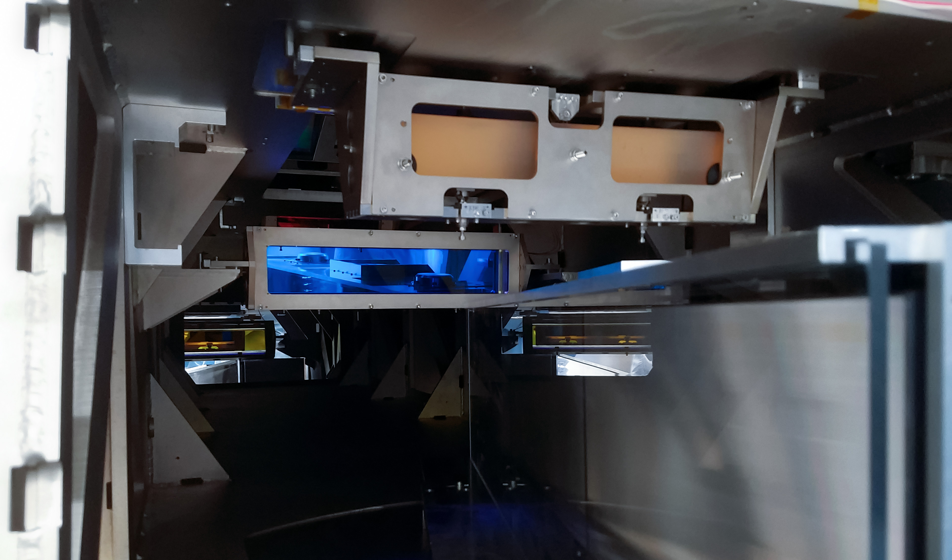 The Echelle SPectrograph for Rocky Exoplanet and Stable Spectroscopic Observations (ESPRESSO) successfully made its first observations in November 2017. Installed on ESO’s Very Large Telescope (VLT) in Chile, ESPRESSO will search for exoplanets with unprecedented precision by looking at the minuscule changes in the properties of light coming from their host stars. For the first time ever, an instrument will be able to sum up the light from all four VLT telescopes and achieve the light collecting power of a 16-metre telescope. This view shows the inside of the vacuum vessel, where the extremely stable spectrographs are located. On the right is the echelle grating and in the centre in blue is the dichroic, which splits red and blue light into separate directions.